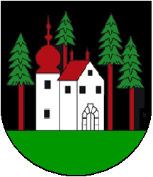 Coat of arms of Waldstatt, Canton of Appenzell Ausserrhoden, SwitzerlandEsperanto: Blazono de Waldstatt, Apencelo Ekstera, Svislando